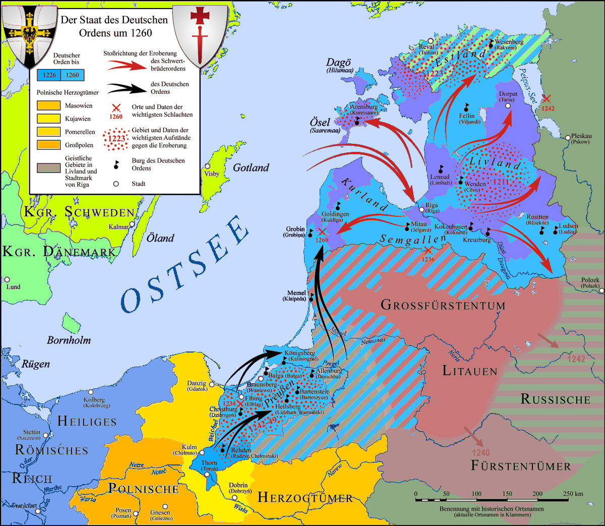 Map of the monastic state of the Teutonic Knights 1260